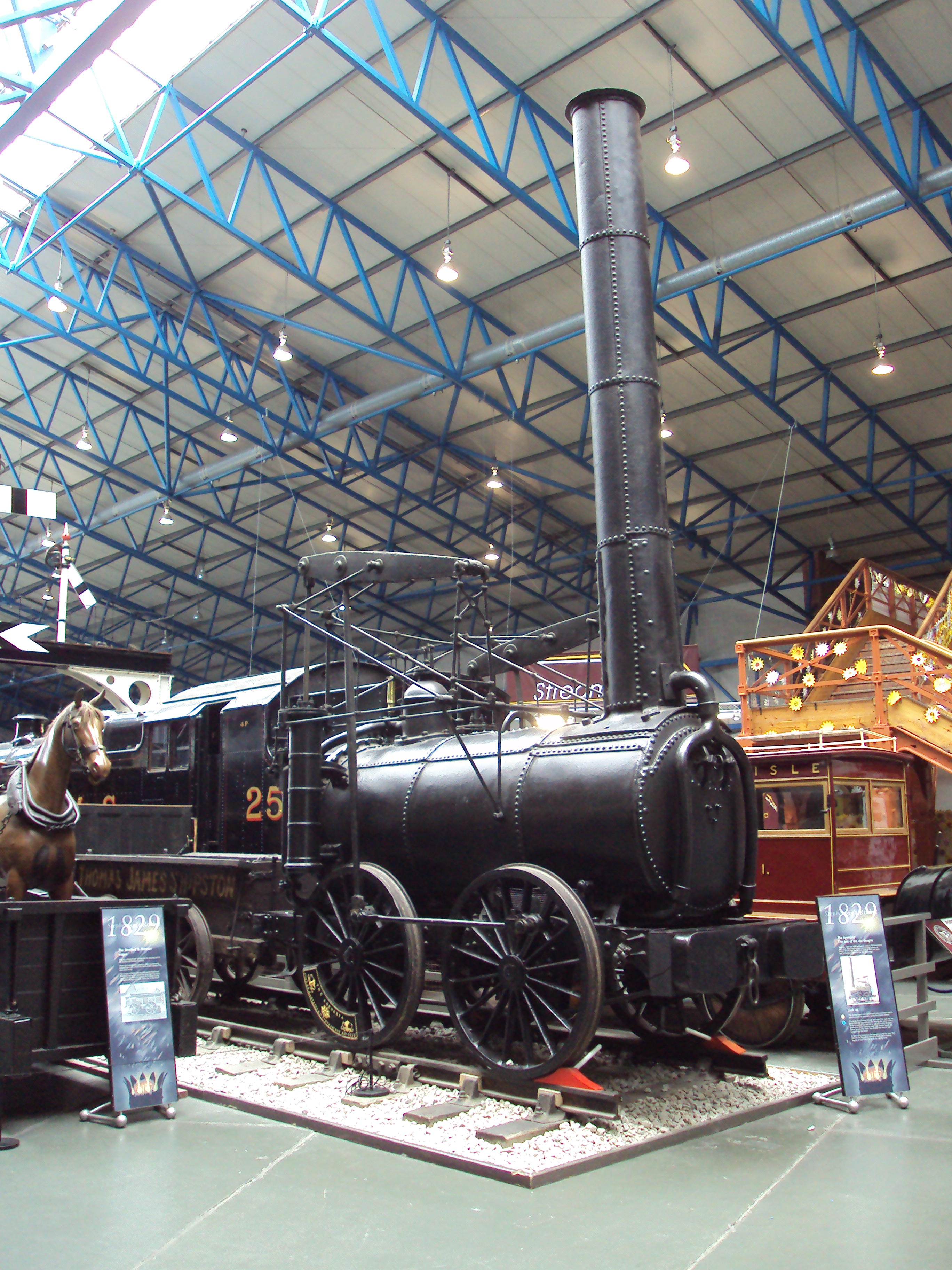 Shutt End Colliery steam locomotive Agenoria built by Foster, Rastrick and Company in 1829. Photo taken at the National Railway Museum, York.